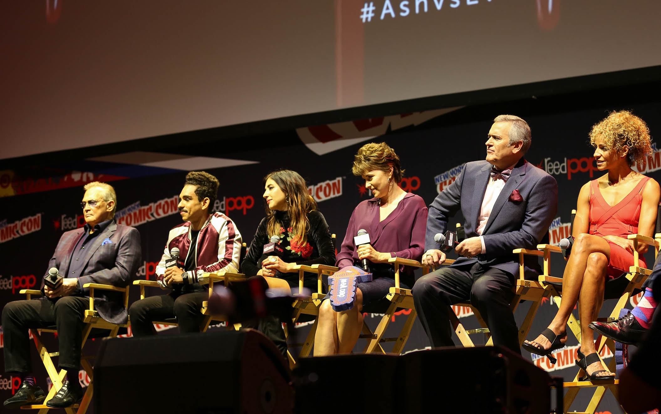 Ash vs Evil Dead panel at the 2016 New York Comic Con. From left to right: Lee Majors, Ray Santiago, Dana DeLorenzo, Lucy Lawless, Bruce Campbell, and Michelle Hurd.